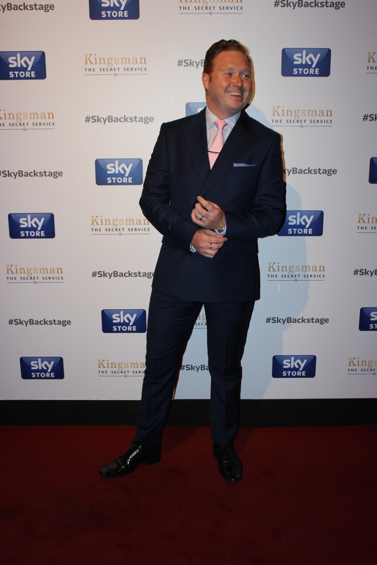 Photograph of Thomas Aldridge at the O2 Premier of the film Kingsman.